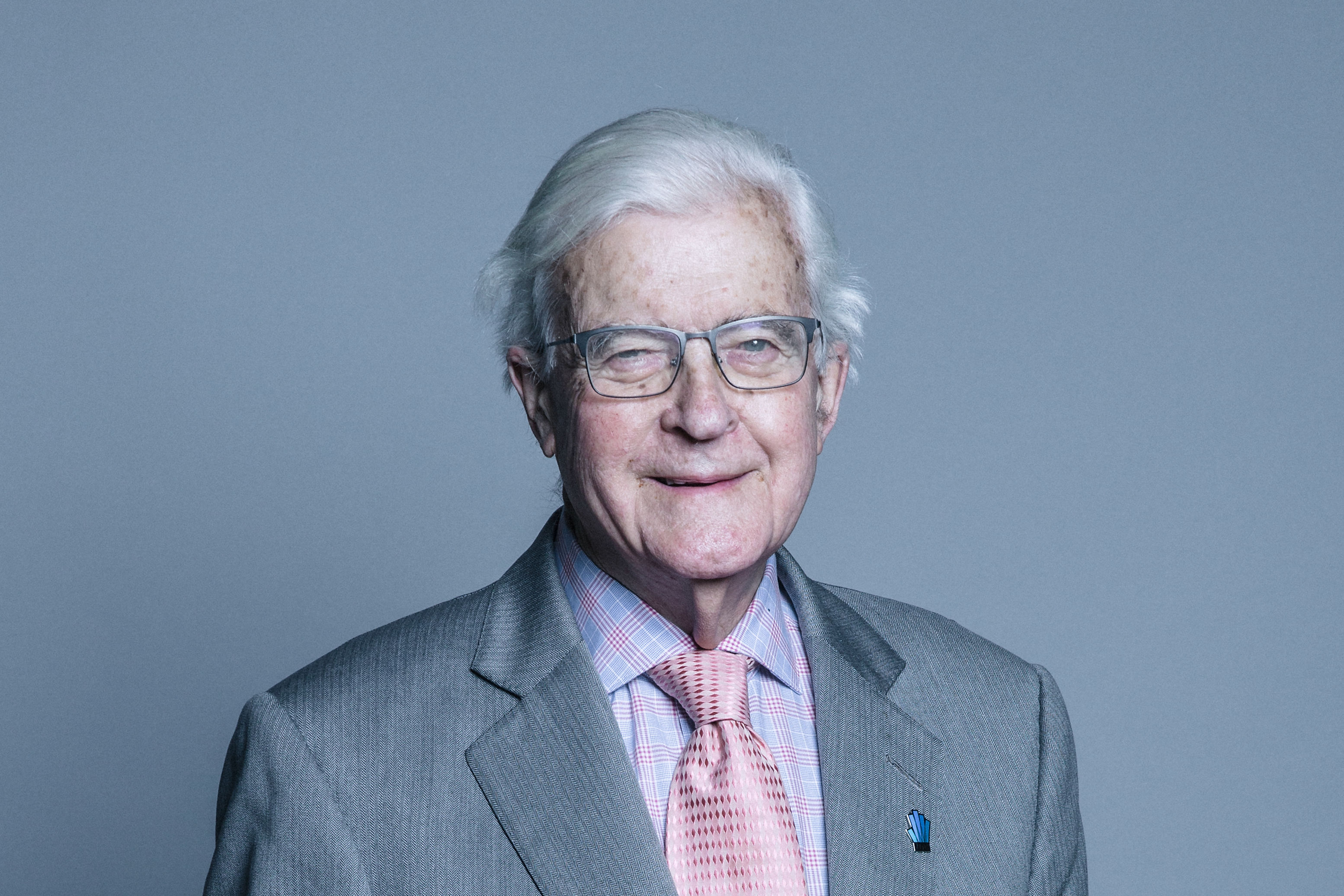 Official portrait of Lord Baker of Dorking